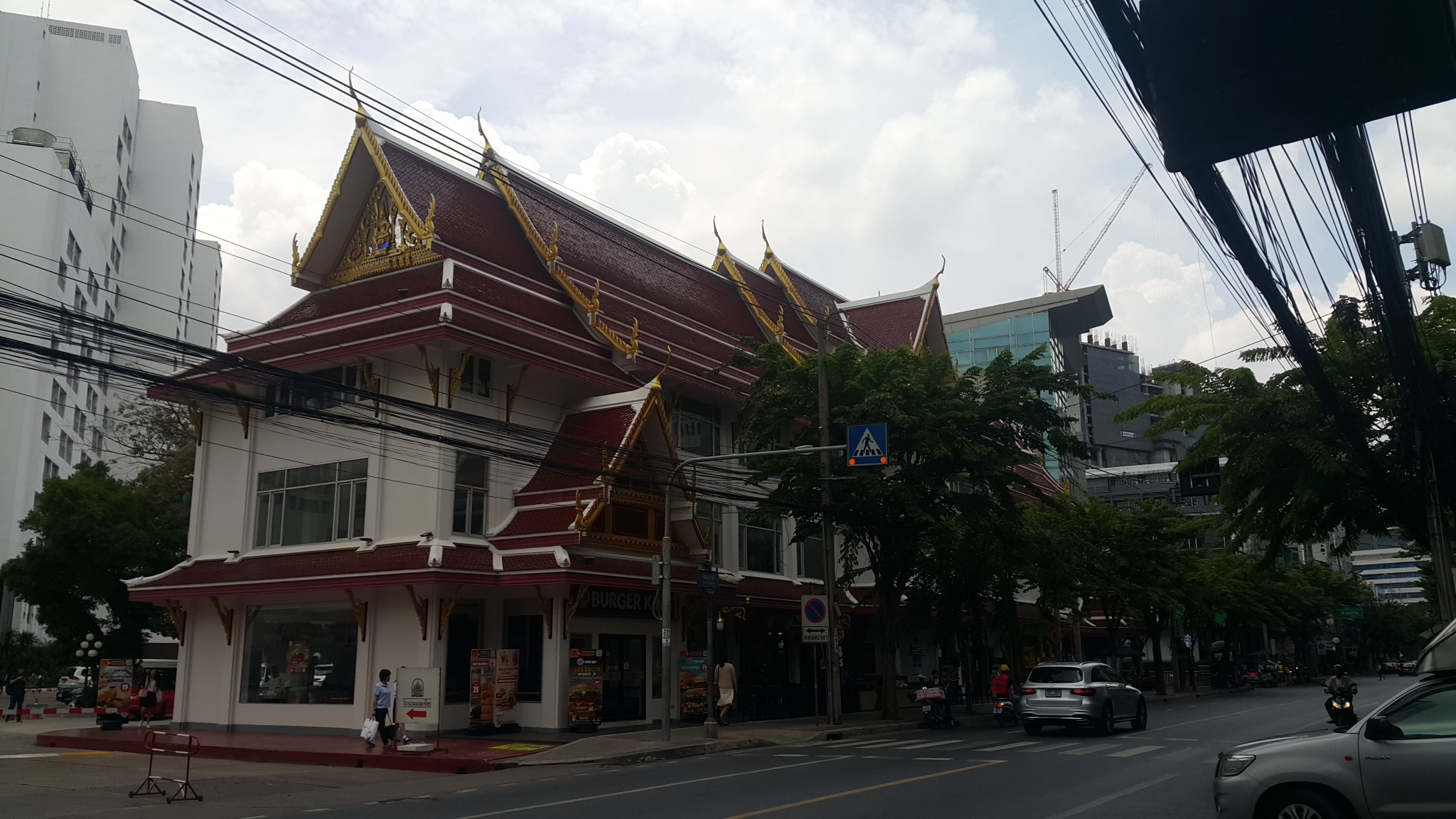 Thai Lai Thong building (ไทยลายทอง) at Montien Hotel Bangkok